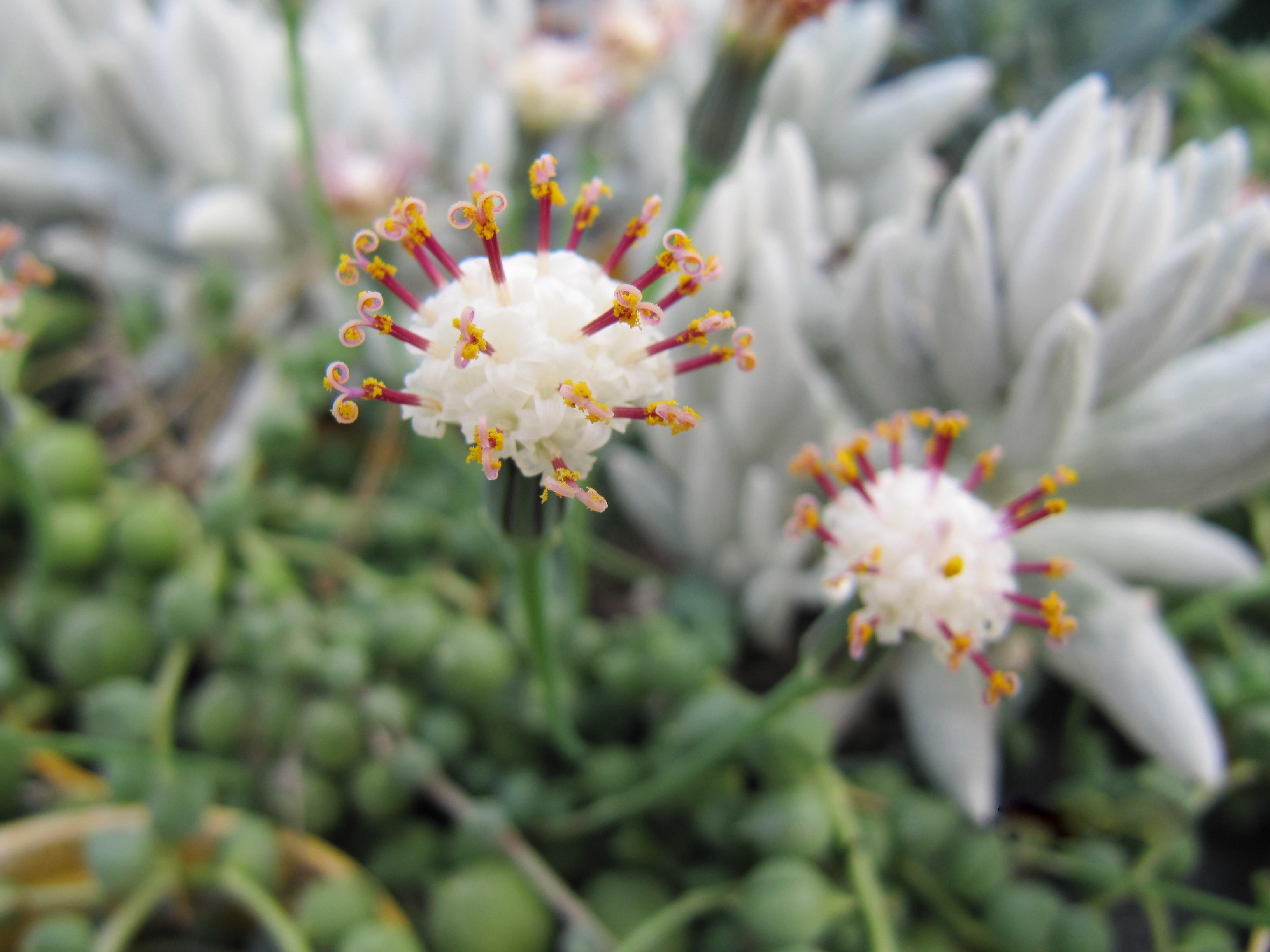 The String-of-Beads plant. I had never seen one in flower before! Senecio rowleyanus, commonly called String-of-Pearls or String-of-Beads, is a flowering plant in the family Asteraceae. It is native to southwest Africa. S. rowleyanus grows long, trailing stems of spherical leaves. The flowers are pale and brushlike. It is cultivated indoors as an ornamental plant for hanging baskets. The fleshy leaves are poisonous and should not be consumed.